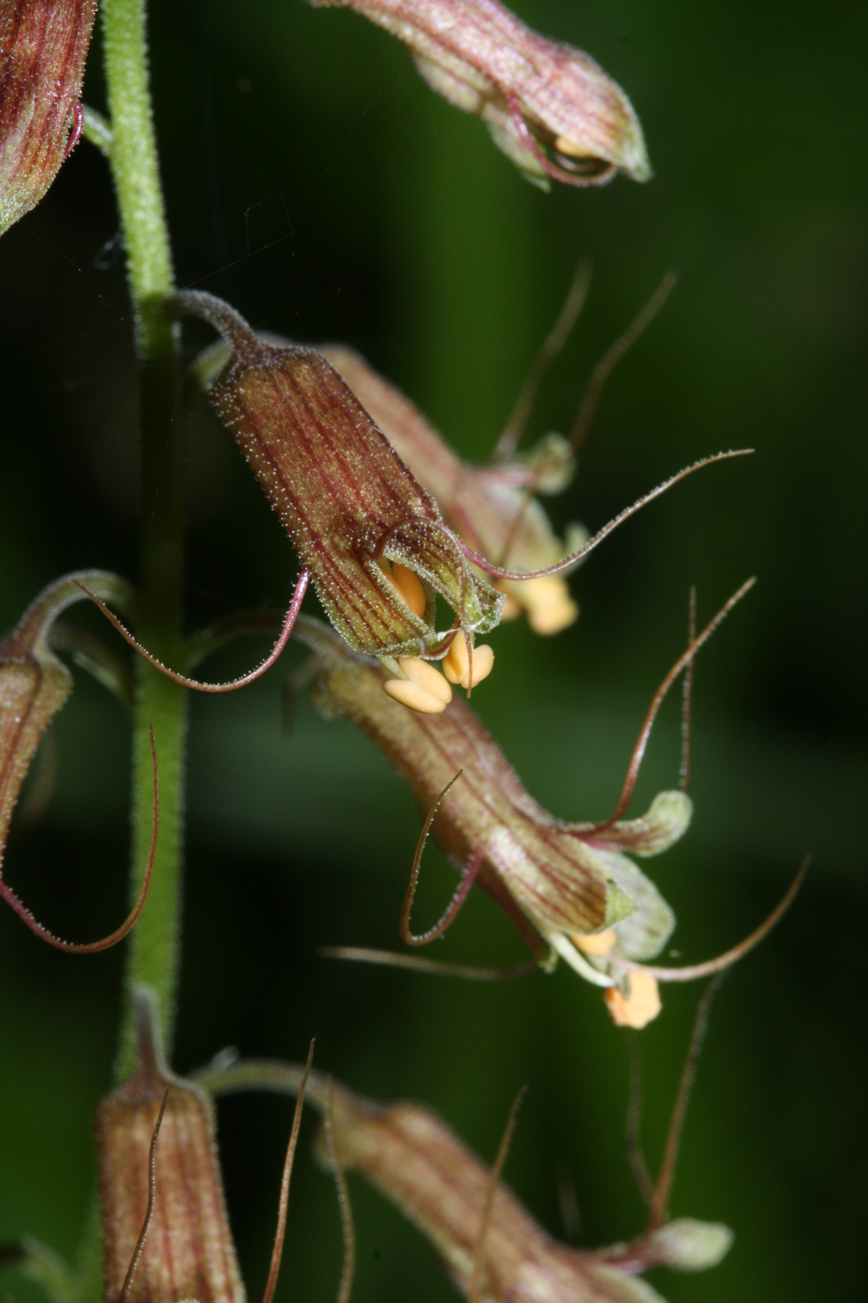 Youth-on-age, Piggyback-plant